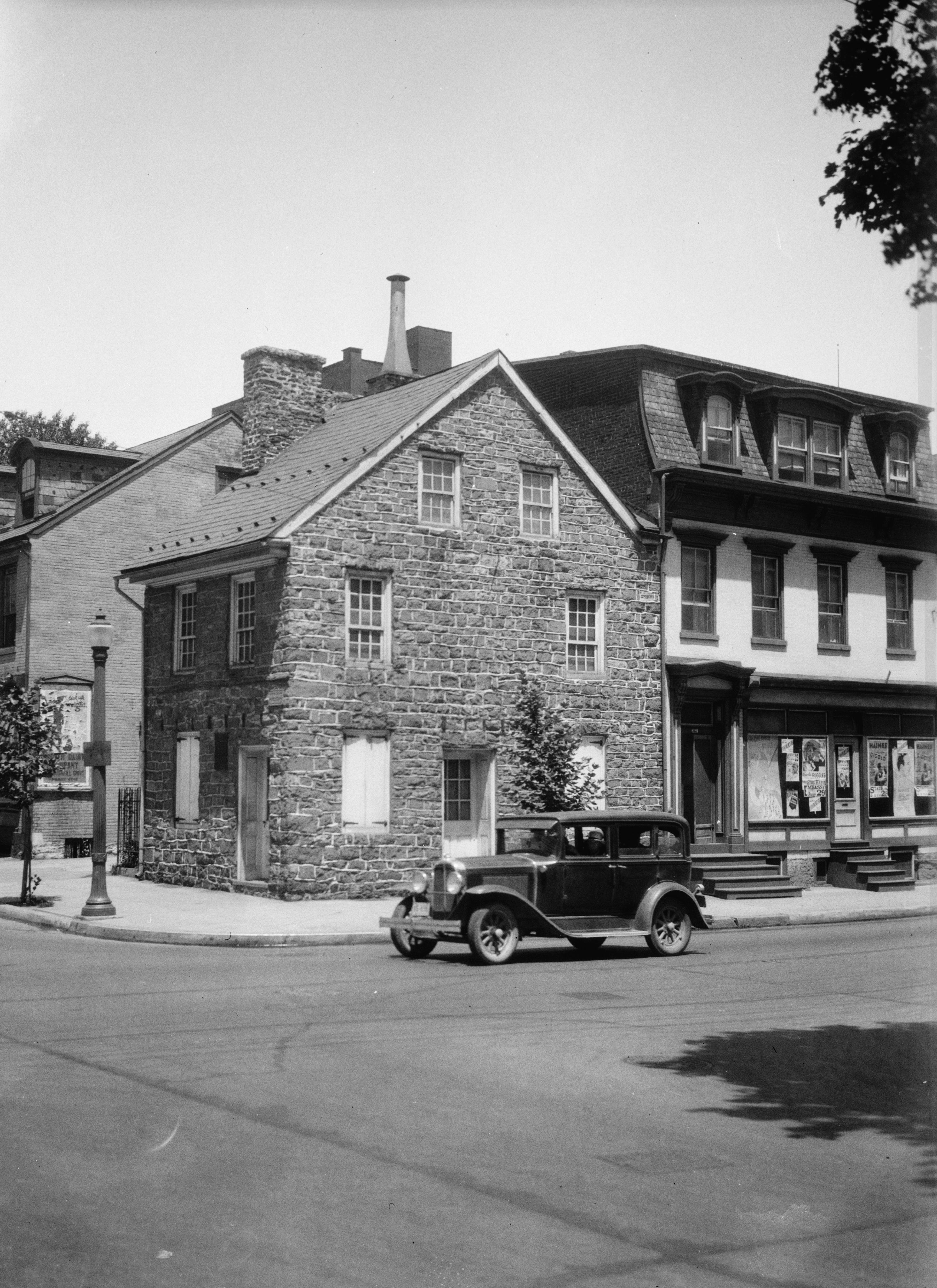 Front of the Parsons-Taylor House, located at the intersection of Fourth and Ferry Streets in Easton, Pennsylvania, United States. Built in 1753, it is listed on the National Register of Historic Places.